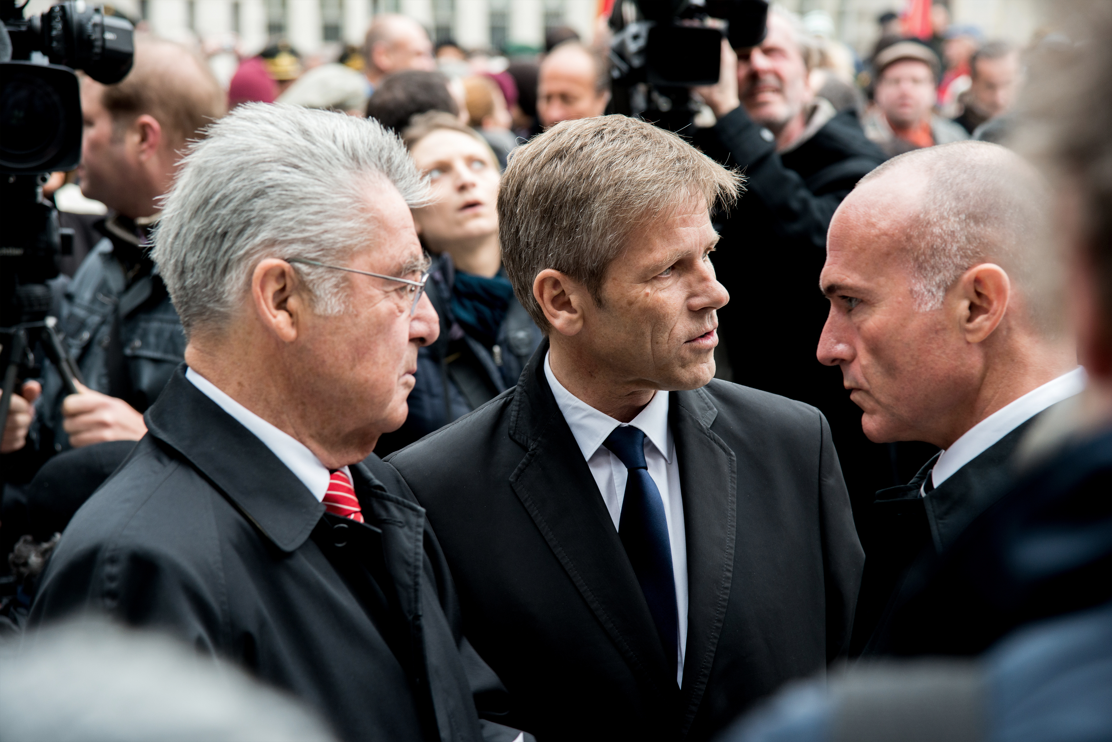 Heinz Fischer (President of Austria), Josef Ostermayer (Minister for Cultural Affairs), Gerald Klug (Minister of Defense) at the Opening of the Monument for the Victims of Nazi Jurisdiction, Vienna, Ballhausplatz, October 24, 2014